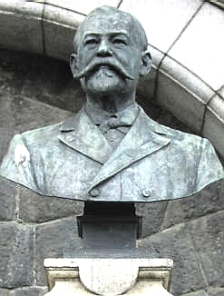 Description: Statue of German doctor Julius Scriba. Location: Tokyo University